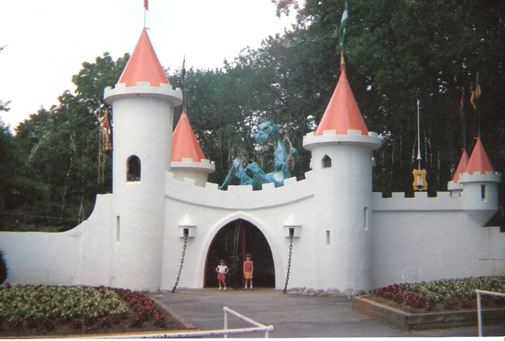 Entrance to Enchanted Forest Amusement Park, Ellicott City, Md